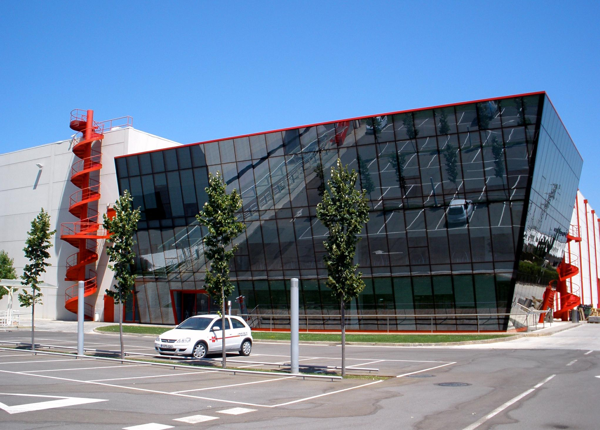 Centro Logístico Würth en Agoncillo (La Rioja, España)